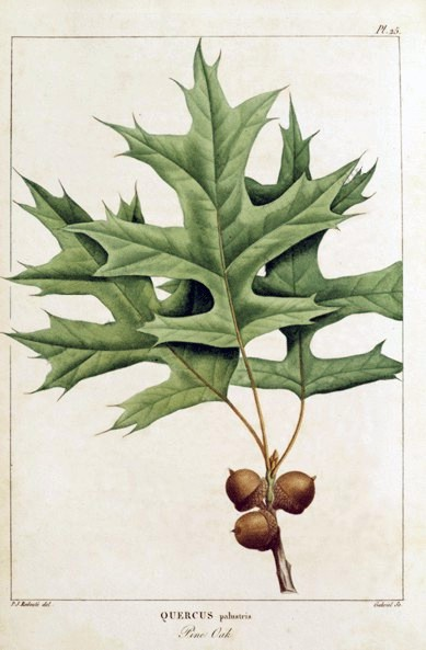 Quercus palustris, a plate from François André Michaux's The North American Sylva, Philadelphia: D. Rice and A. N. Hart, 1857.